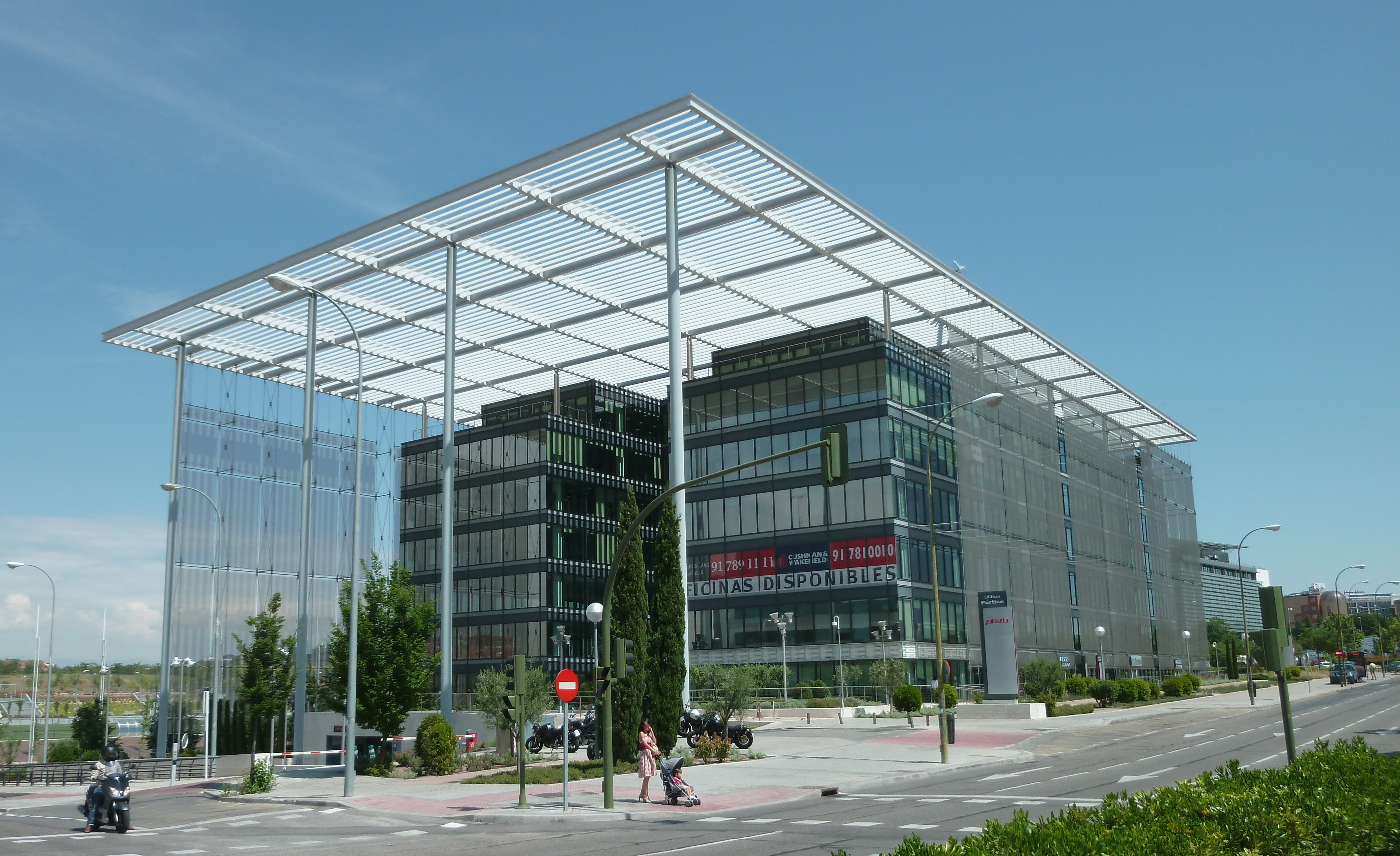 Façade of Portico Building in Madrid (Spain). It is home to Pullmantur Cruises' head offices.